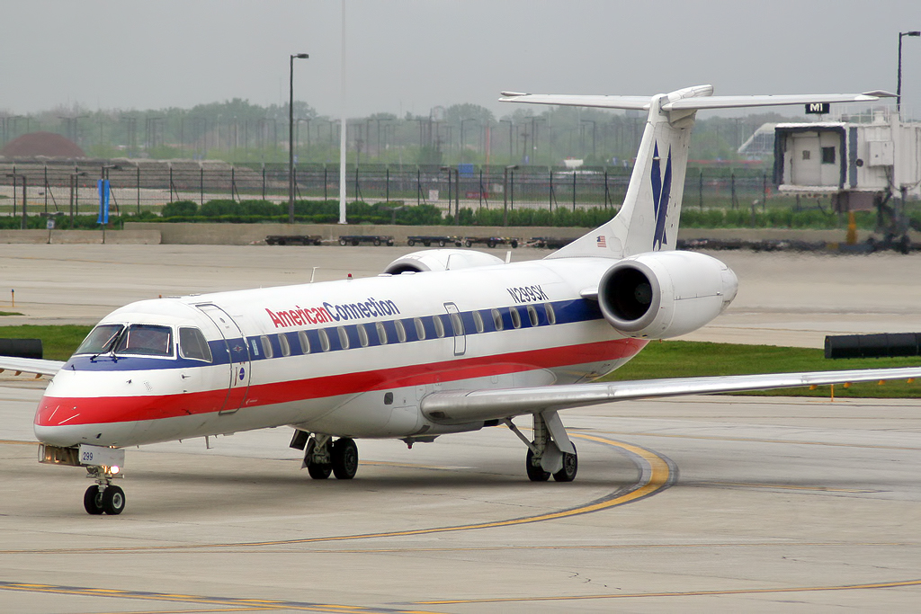 Chicago O'Hare International Airport, IL (ORD/KORD)